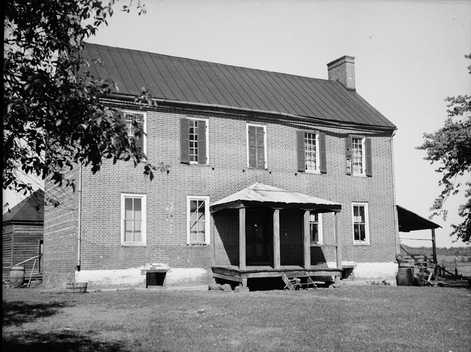 Moor Green, State Route 692, Brentsville vicinity (Prince William County, Virginia) cropped, HABS VA,76-BRENT.V,3-1 This file comes from the Historic American Buildings Survey (HABS), Historic American Engineering Record (HAER) or Historic American Landscapes Survey (HALS). These are programs of the National Park Service established for the purpose of documenting historic places. Records consist of measured drawings, archival photographs, and written reports. When reusing please credit: Library of Congress, Prints & Photographs Division, VA-554 This tag does not indicate the copyright status of the attached work. A normal copyright tag is still required. See Commons:Licensing for more information. This work is in the public domain in the United States because it is a work prepared by an officer or employee of the United States Government as part of that person’s official duties under the terms of Title 17, Chapter 1, Section 105 of the US Code. See Copyright. Note: This only applies to original works of the Federal Government and not to the work of any individual U.S. state, territory, commonwealth, county, municipality, or any other subdivision. This template also does not apply to postage stamp designs published by the United States Postal Service since 1978. (See § 313.6(C)(1) of Compendium of U.S. Copyright Office Practices). It also does not apply to certain US coins; see The US Mint Terms of Use. This file has been identified as being free of known restrictions under copyright law, including all related and neighboring rights.